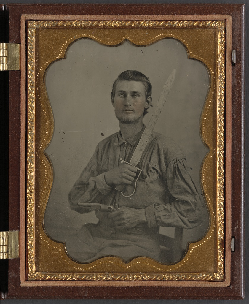 [Private Simeon J. Crews of Co. F, 7th Texas Cavalry Regiment, with cut down saber and revolver] [between 1861 and 1865] 1 photograph : quarter-plate ambrotype, hand-colored ; 12.4 x 10.1 cm (case) Notes: Title devised by Library staff. Case: Berg, no. 2-10. Use digital images. Original served only by appointment because material requires special handling. For more information see: ( Photo shows identified soldier. Deposit; Tom Liljenquist; 2012; (D066) Purchased from: B.G. "Chip" Newman, Broker of Fine Antiquities, Madison, Mississippi, 2012. Forms part of: Liljenquist Family Collection of Civil War Photographs (Library of Congress). Forms part of: Ambrotype/Tintype photograph filing series (Library of Congress). Published in: Serrano, Domenick A. Still more Confederate faces. Bayside, N.Y.: Metropolitan Co., 1994, p. 33. Subjects: Crews, Simeon J.,--1846-1919. Confederate States of America.--Army.--Texas Cavalry Regiment, 7th--People--1860-1870. Soldiers--Confederate--1860-1870. Military uniforms--Confederate--1860-1870. Daggers & swords--1860-1870. Handguns--1860-1870. United States--History--Civil War, 1861-1865--Military personnel--Confederate. Format: Portrait photographs--1860-1870. Ambrotypes--Hand-colored--1860-1870. Repository: Library of Congress, Prints and Photographs Division, Washington, D.C. 20540 USA, Part Of: Ambrotype/Tintype filing series (Library of Congress) (DLC) 2010650518 Liljenquist Family collection (Library of Congress) (DLC) 2010650519 More information about this collection is available at Higher resolution image is available (Persistent URL): Call Number: AMB/TIN no. 3069